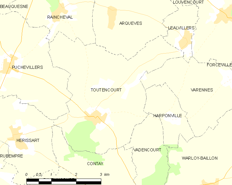 Map of French municipality Toutencourt